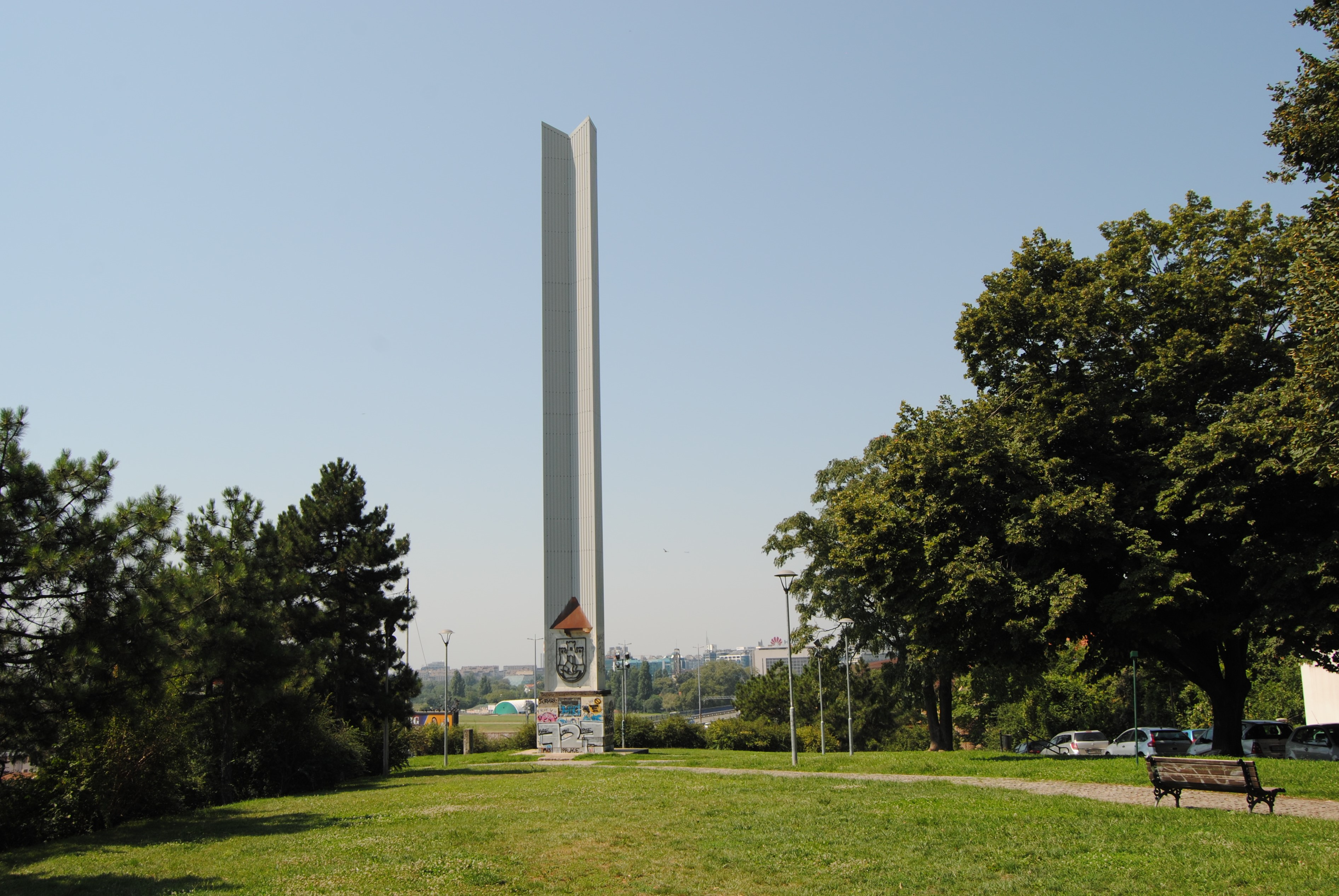 Non-Aligned Countries Park in Belgrade, Serbia.